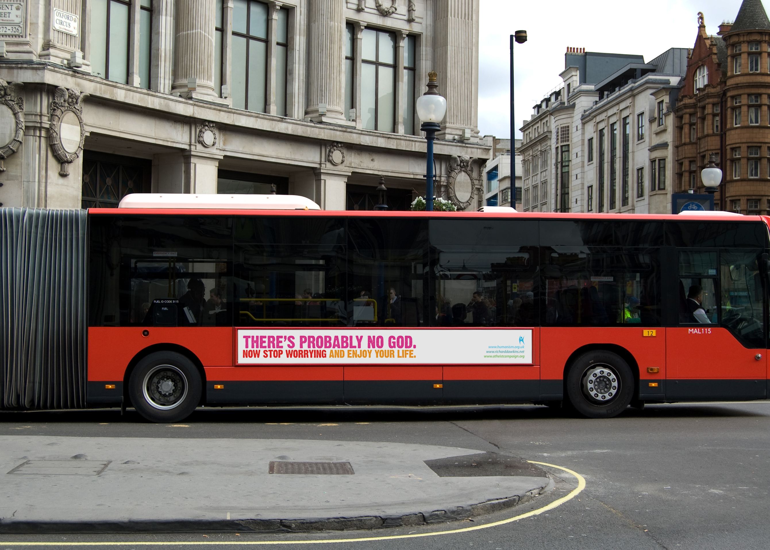 One of the atheist adverts on the side of London General's MAL115 (BP57 UYG), a Mercedes-Benz Citaro G in London at the junction of Regent Street and Oxford Circus.